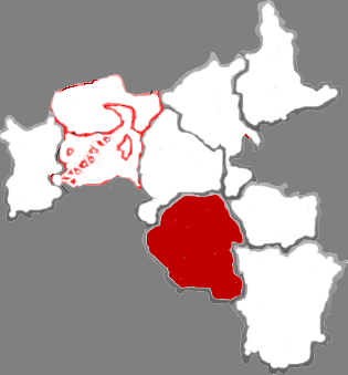 Location of Hunyuan county in Datong City, China